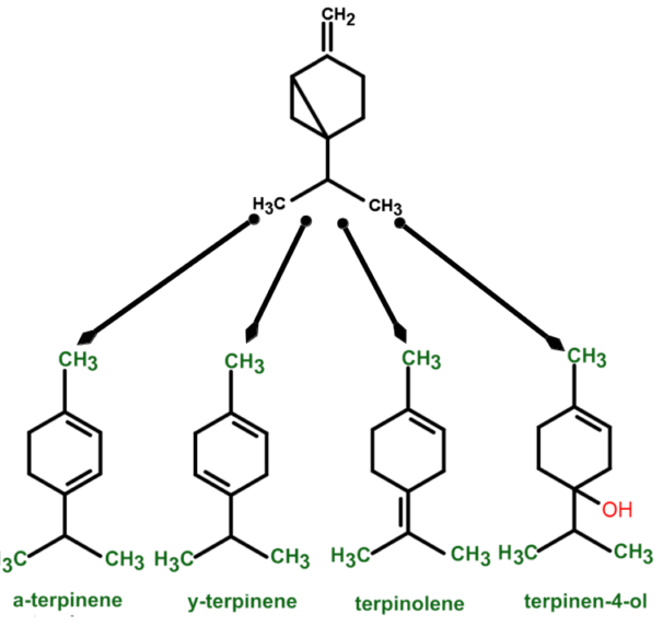 Sabinene molecular rearrangement